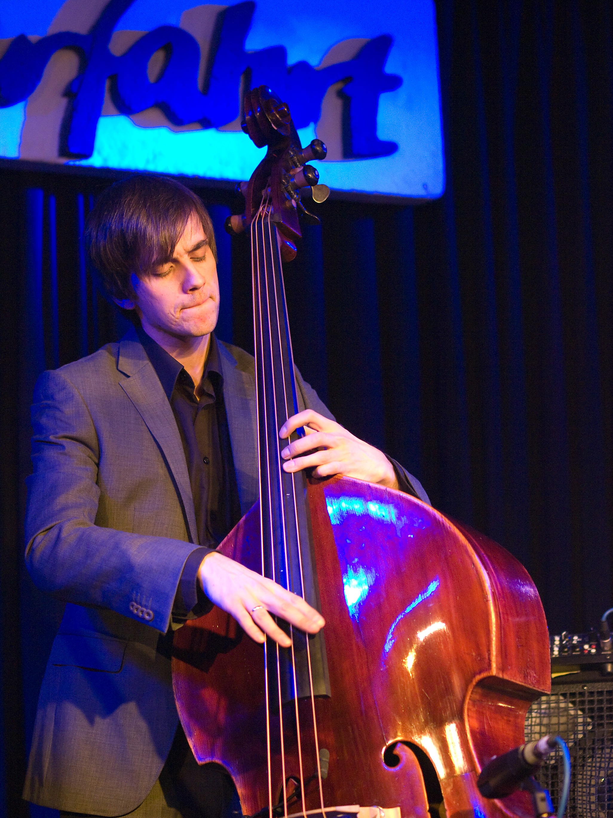 Audun Ellingsen, Jazz bassist, Picture taken in Jazz Club Unterfahrt, Munich/Bavaria